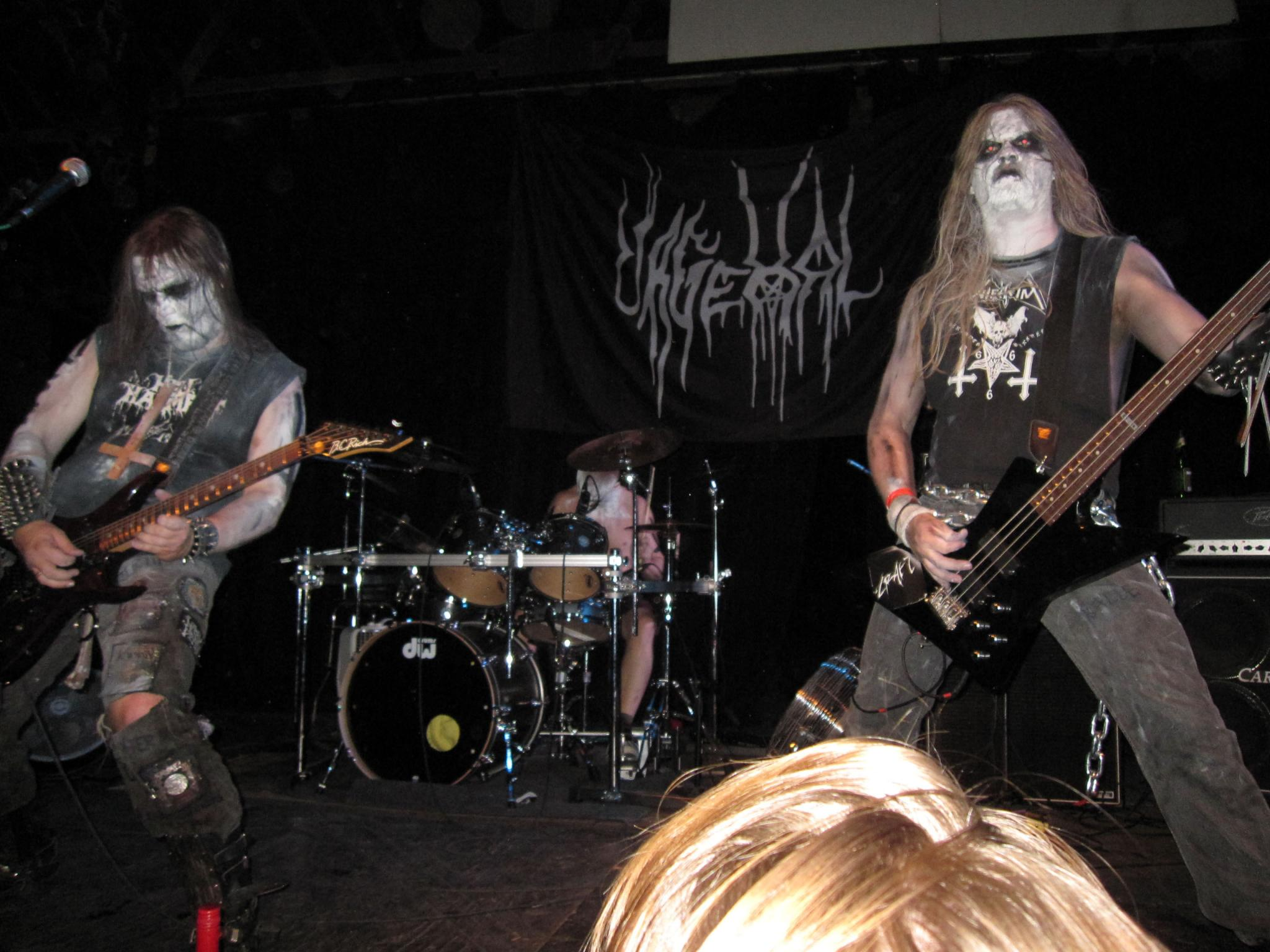 Norwegian Black Metal band Urgehal in 2009